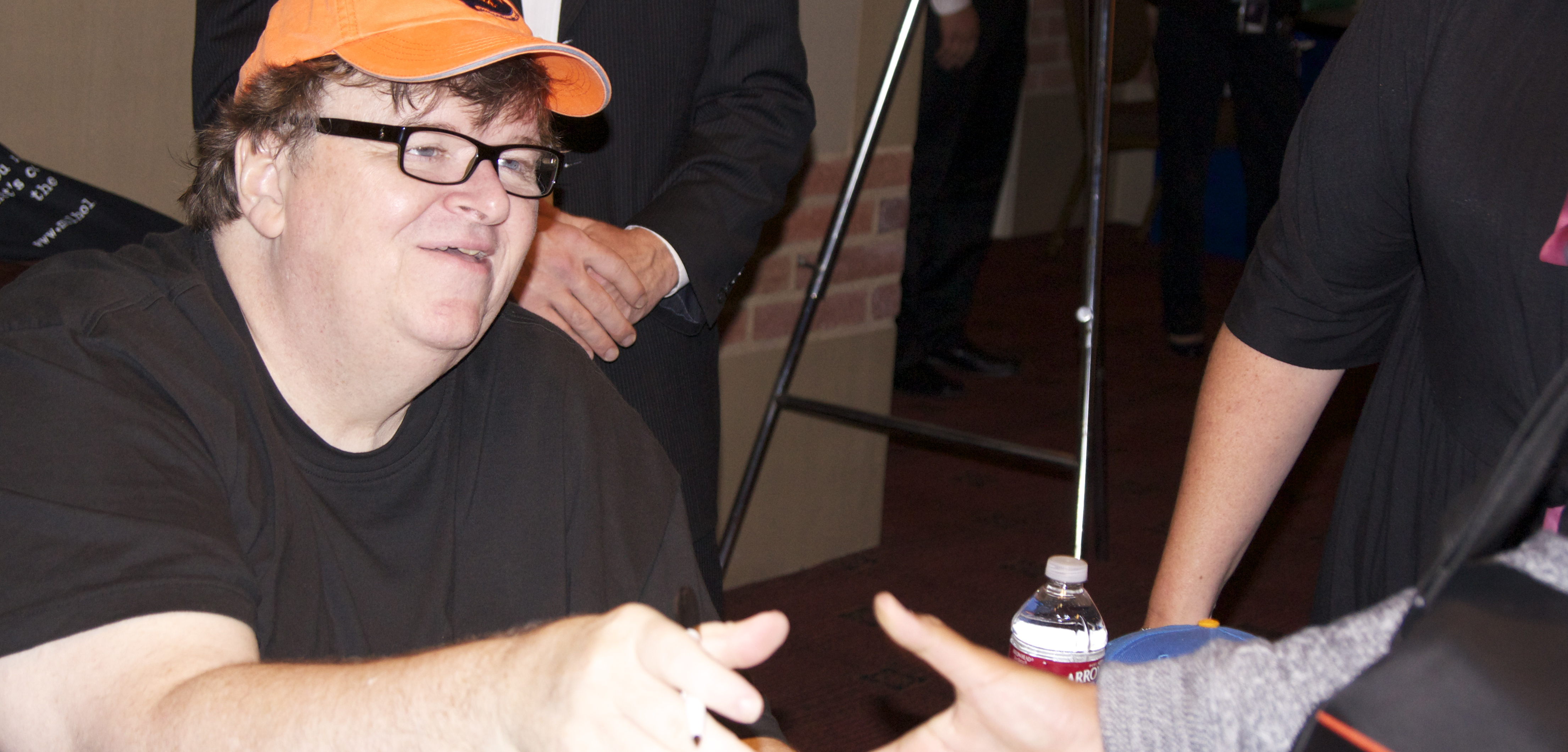 Michael Moore greeting people at Royce Hall, UCLA in 2011.